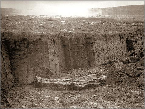 In situ photo of bog body Nederfrederiksmose Man, also known as Frederiksdal Man and Kragelund Man found on May 25th 1898 in Fattiggårdens mose near the village Kragelund, north west of Silkeborg, Denmark. The find dates to 1099 AD. This image was taken in 1898 during the excavation making it over 100 years old. It is the first known photo of a bog body.